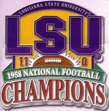 LSU 1958 championship logo